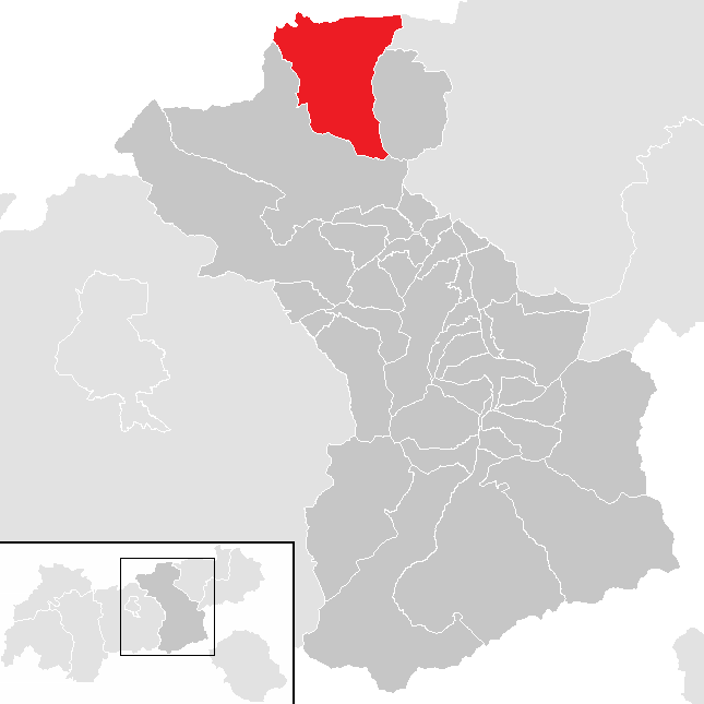 District Schwaz